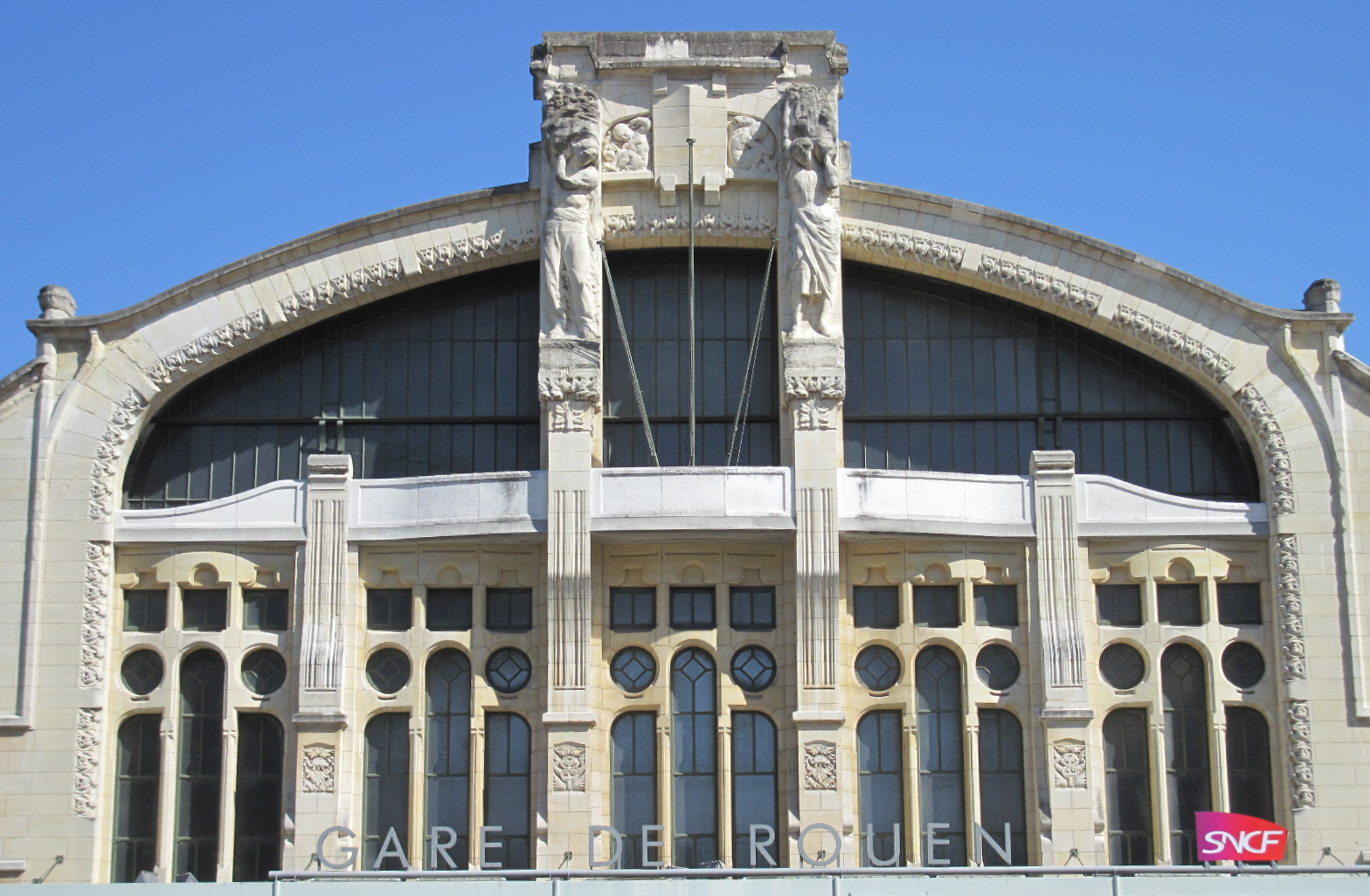 Rouen railway station, August 2009